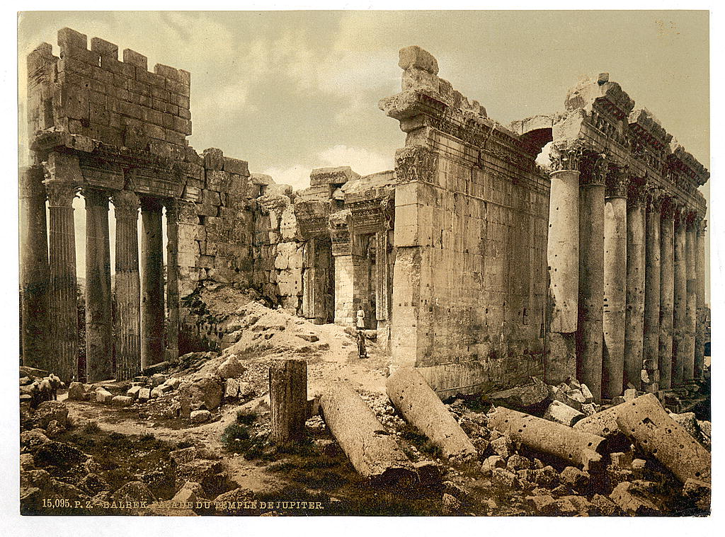 Temple of Jupiter the facade Baalbek Holy Land (i.e. Balabakk Lebanon)